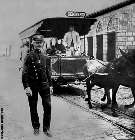 Civilian Police of Paraná State / Brazil - 1911.